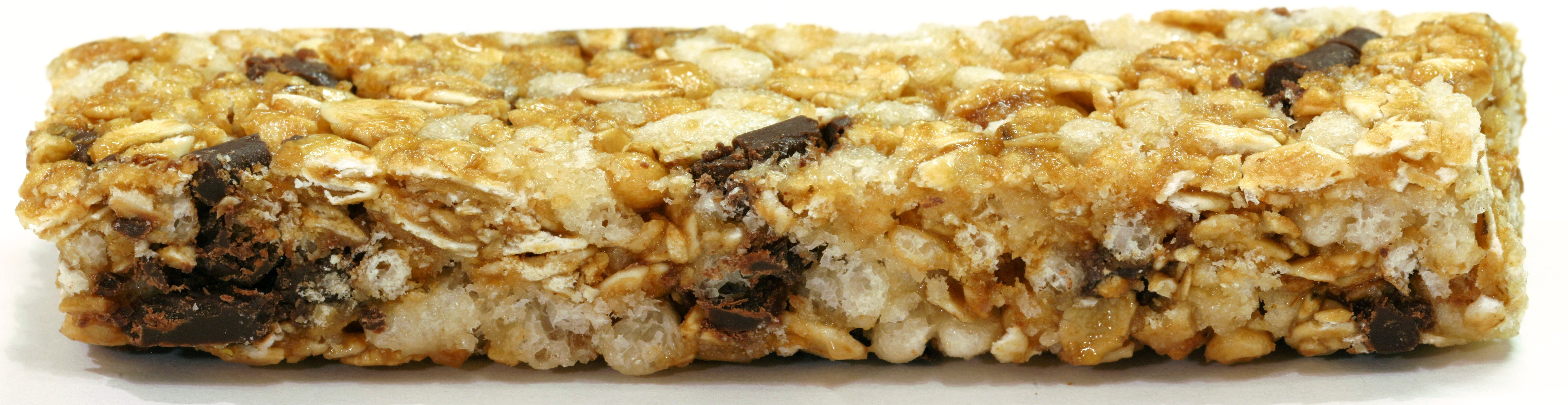 A "panoramic" image of a chewy granola bar (with chocolate chunks) stitched together from 9 images.